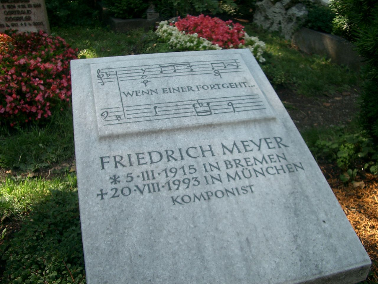 Grave at the churchyard in Bogenhausen of the german composer Friedrich Meyer